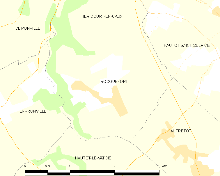 Map of French municipality Rocquefort